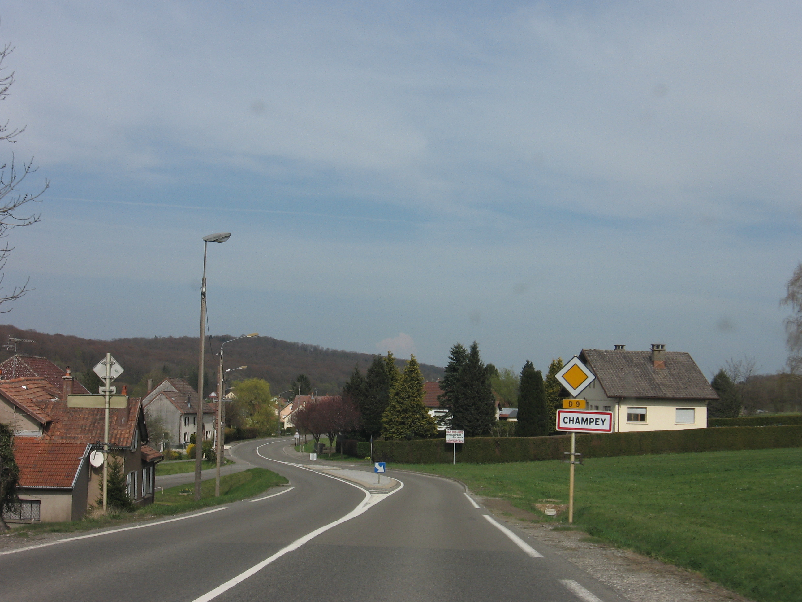 Champey